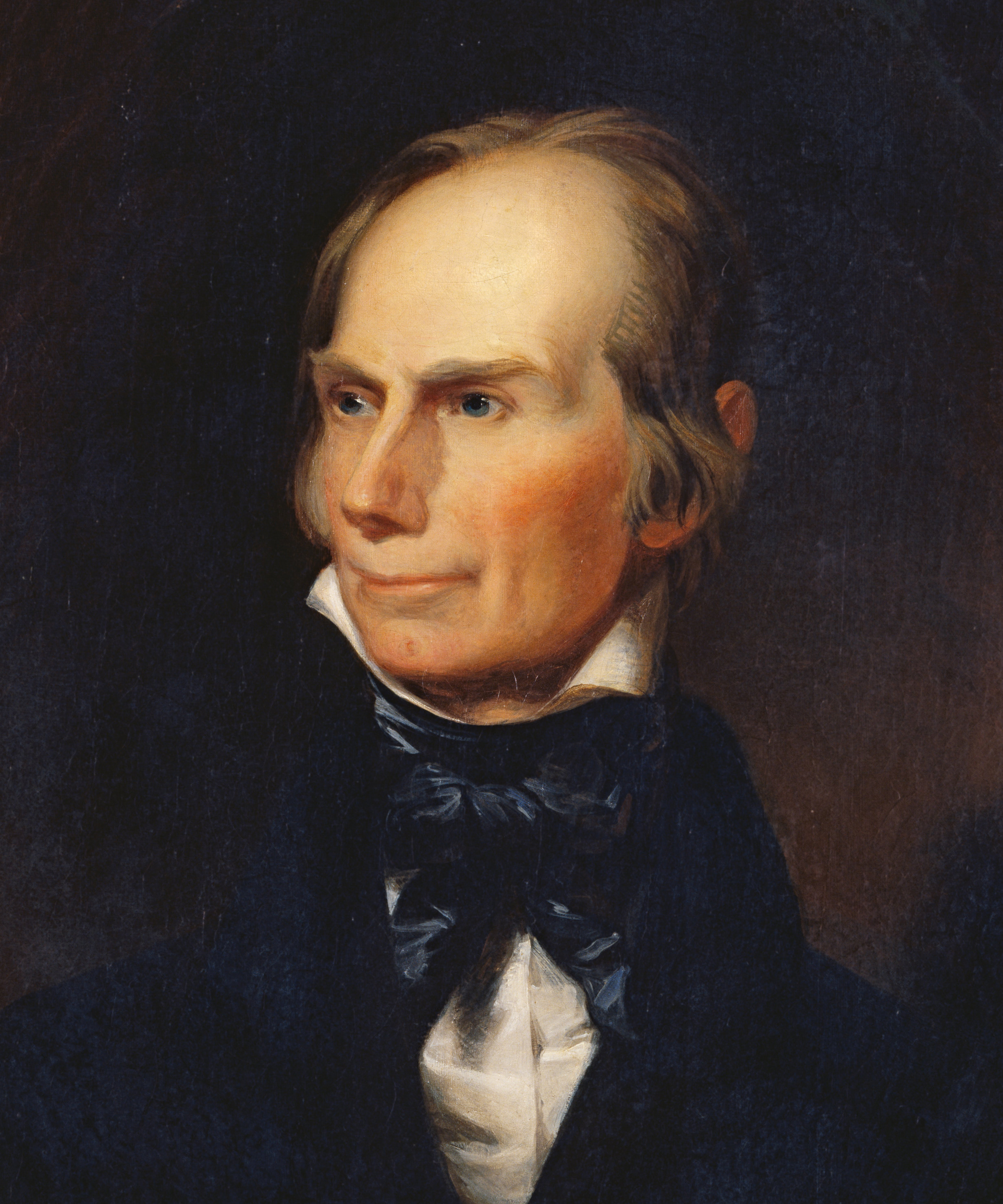 Portrait of Henry Clay (1842) by John B. Neagle from the National Portrait Gallery